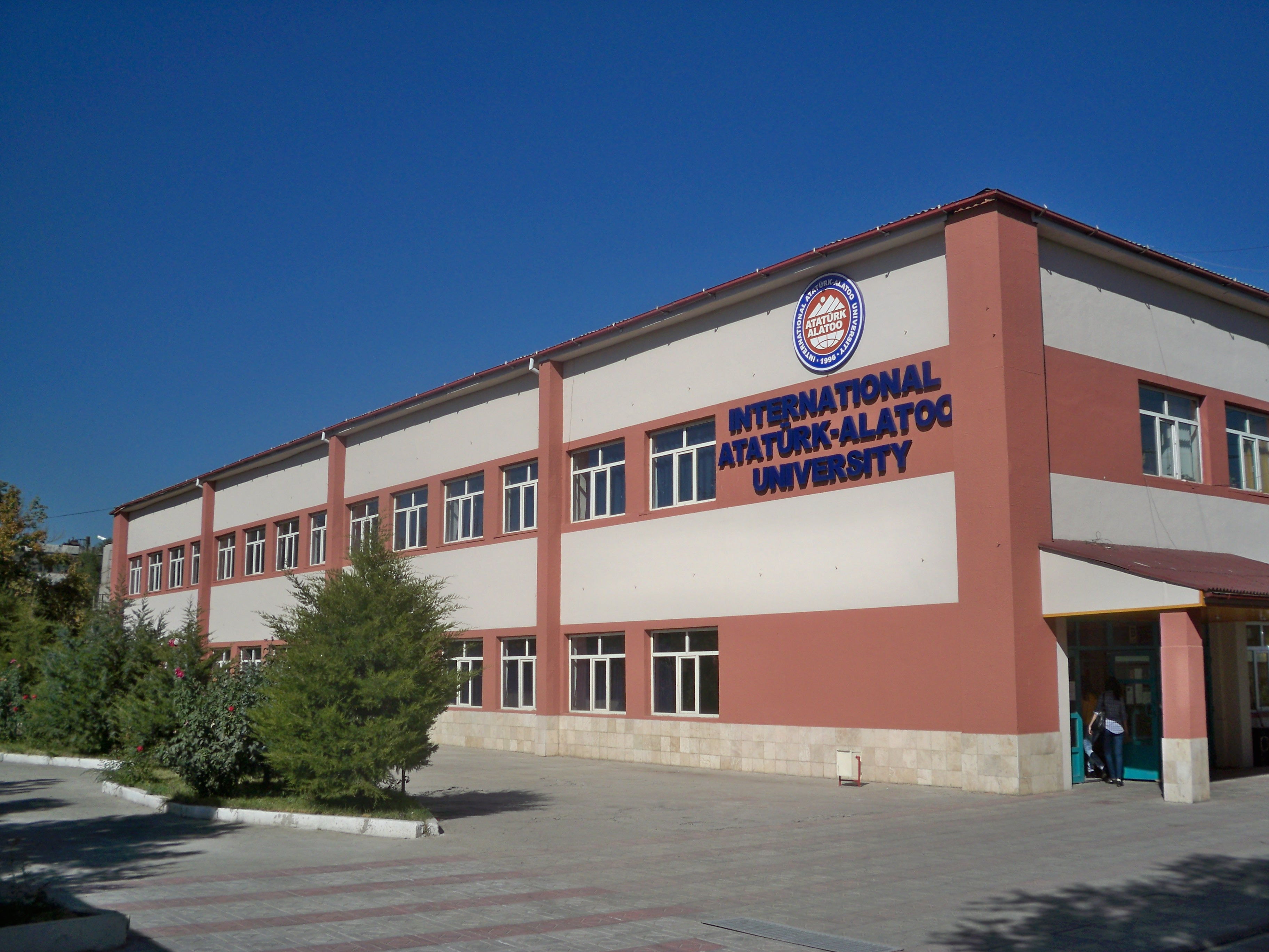 Building B of International Atatürk-Alatoo University